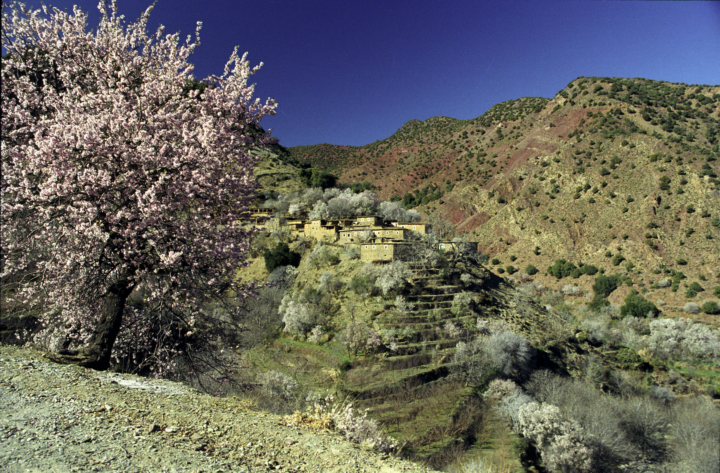 High Atlas, Morocco